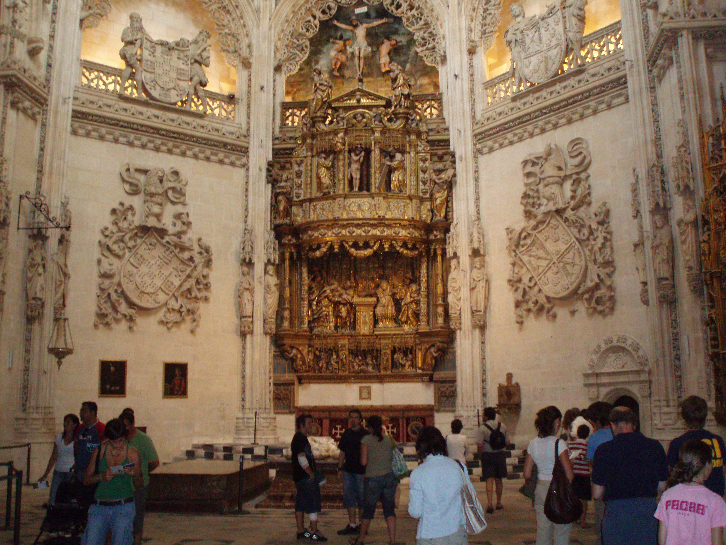 Chapel of the Condestable in the Cathedral of Burgos. (Spain).